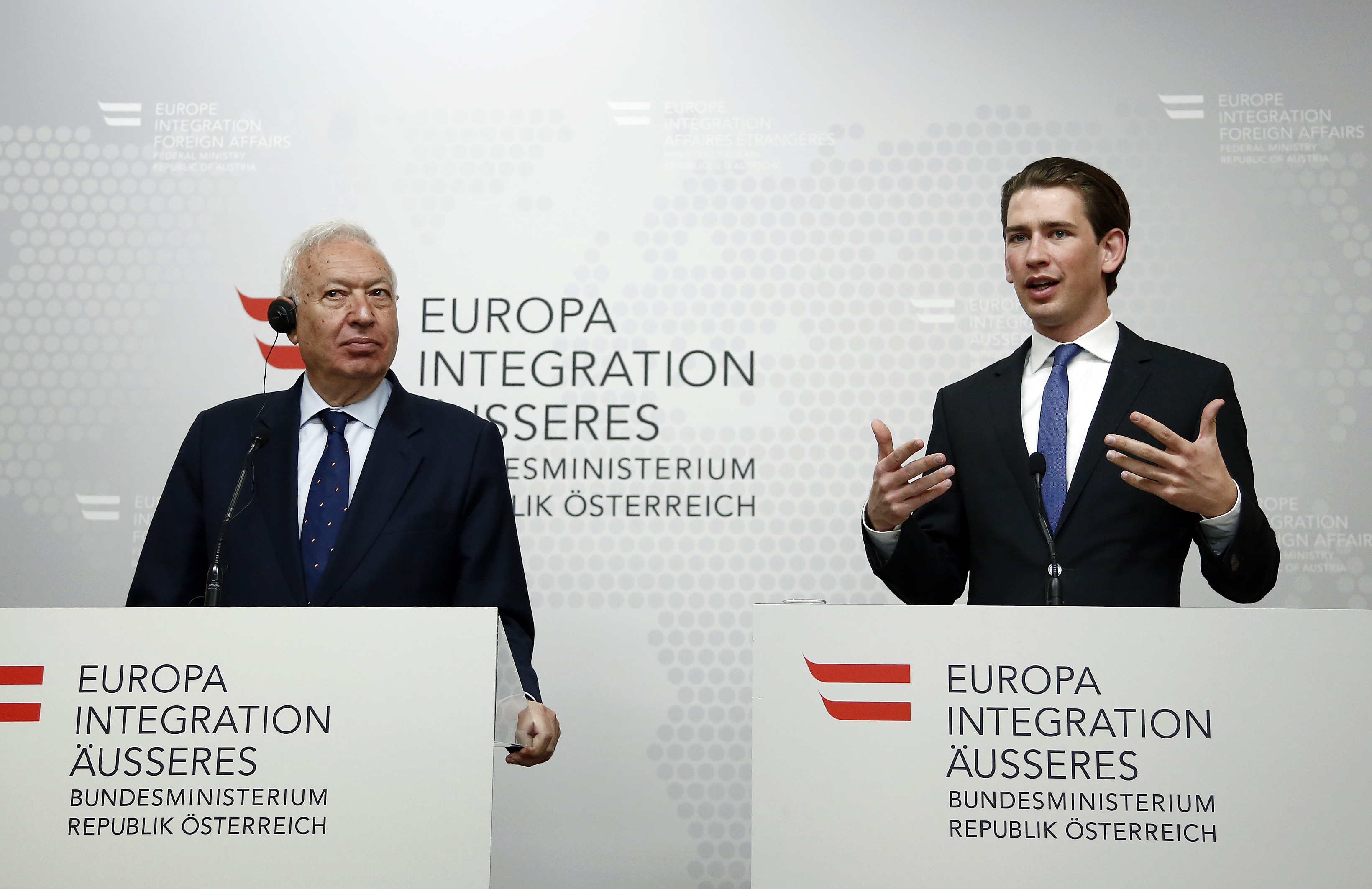 Sebastian Kurz with José Manuel García-Margallo in Vienna (May 2015)